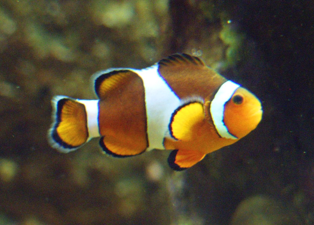 Clownfish (Amphiprion ocellaris) at Aquazoo-Löbbecke-Museum Düsseldorf